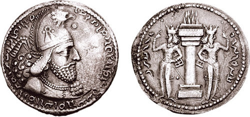 Coin of Shapur I with eagle-headed crown.